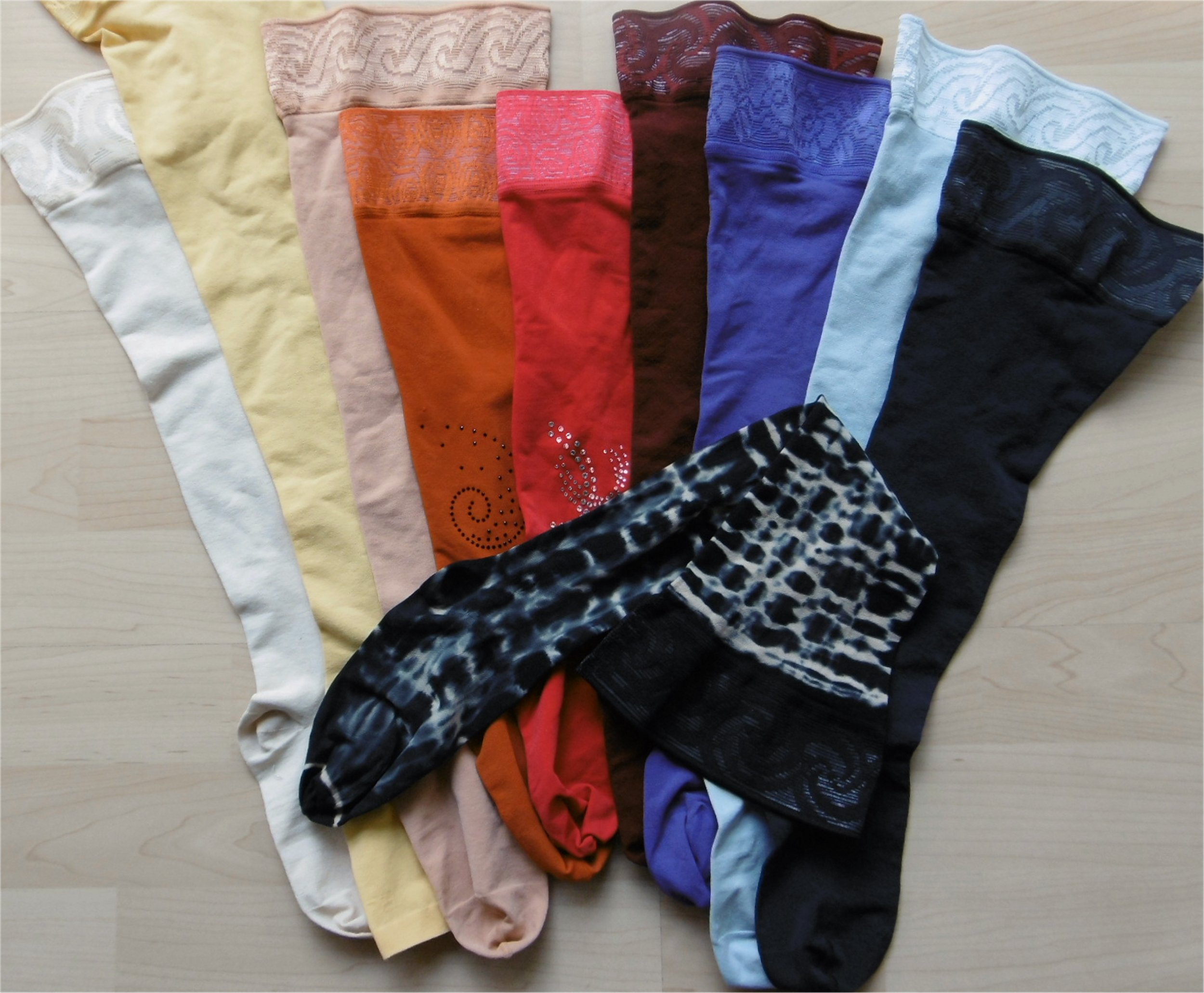 Types of Compression stockings in different colours